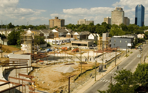 CenterCourt, an urban residental and retail project one block from the University of Kentucky, is currently under construction. It is adjacent to South Hill Station and South Hill Lofts and three blocks from downtown Lexington. Photograph taken by Sherman Cahal; it can also be found on his personal gallery.